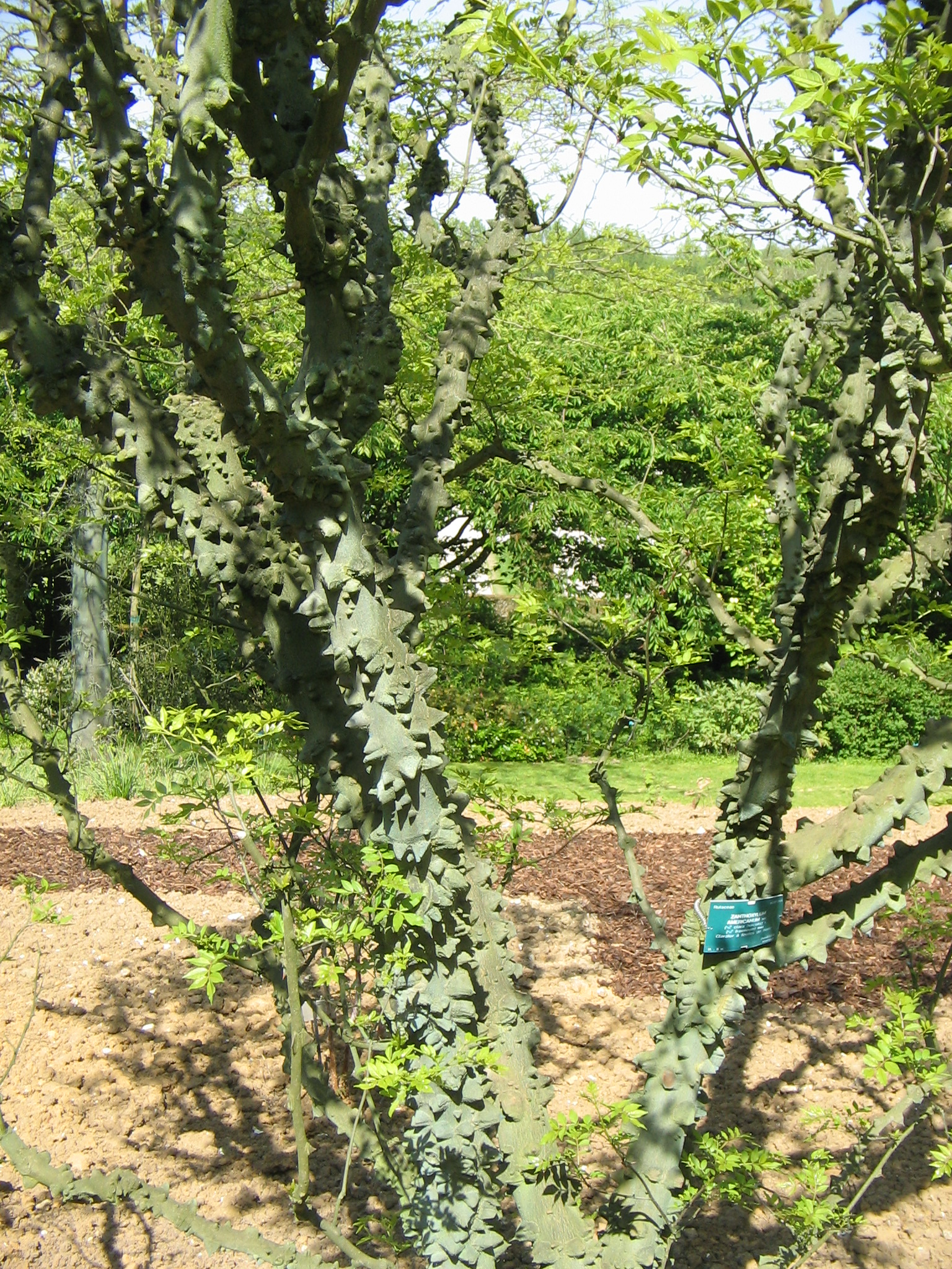 Zanthoxylum americanum bark